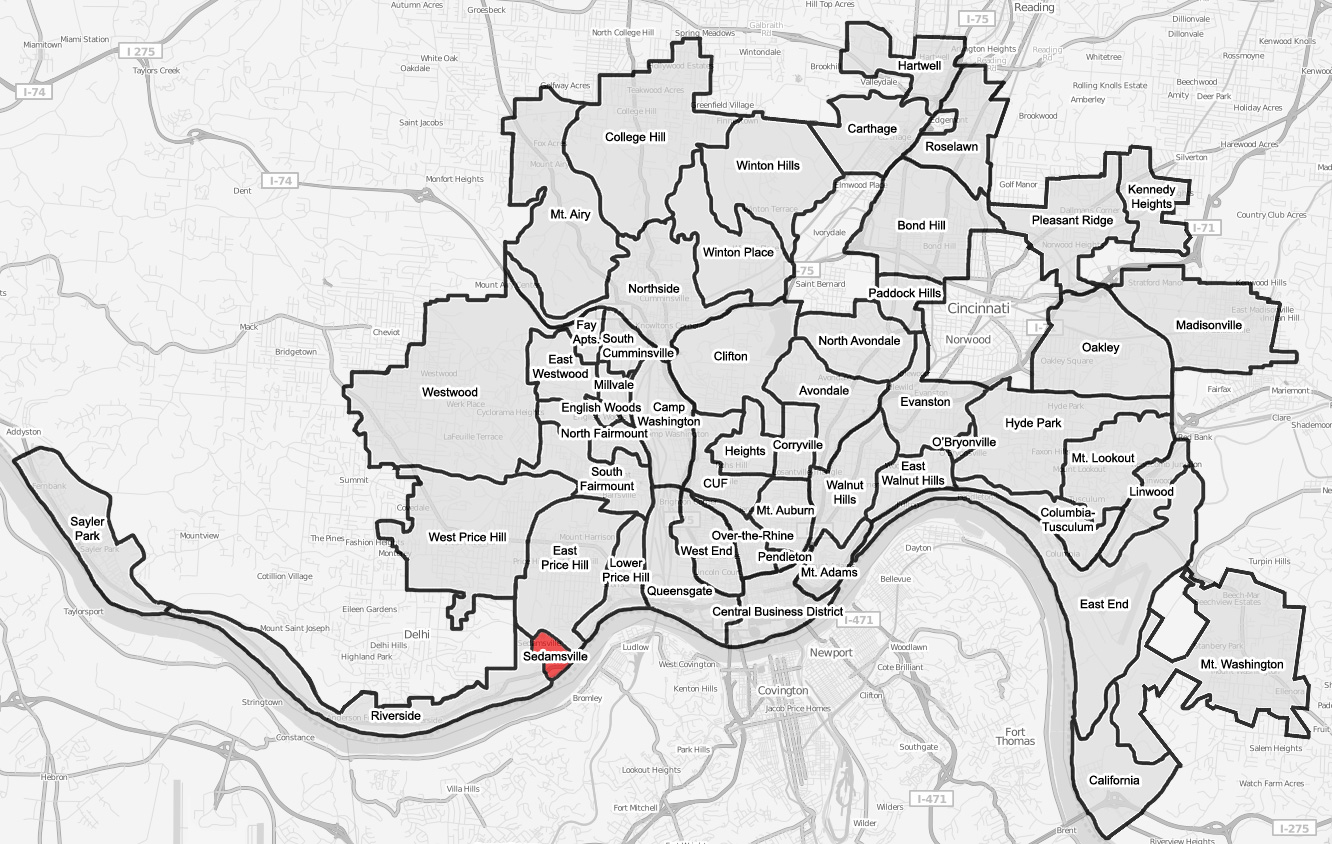 A map of the neighborhood of Sedamsville within Cincinnati, Ohio. Neighborhood lines are based on information from This street map is derived from a free map.